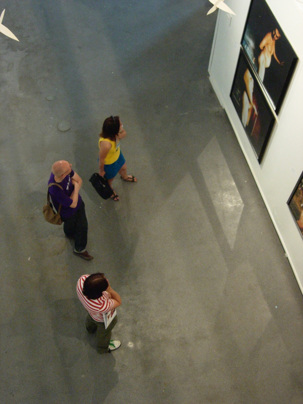 People looking at art in Mänttä Art Festival 2009.